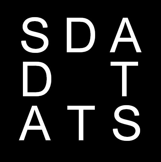 Former Logo of SDA-ATS.